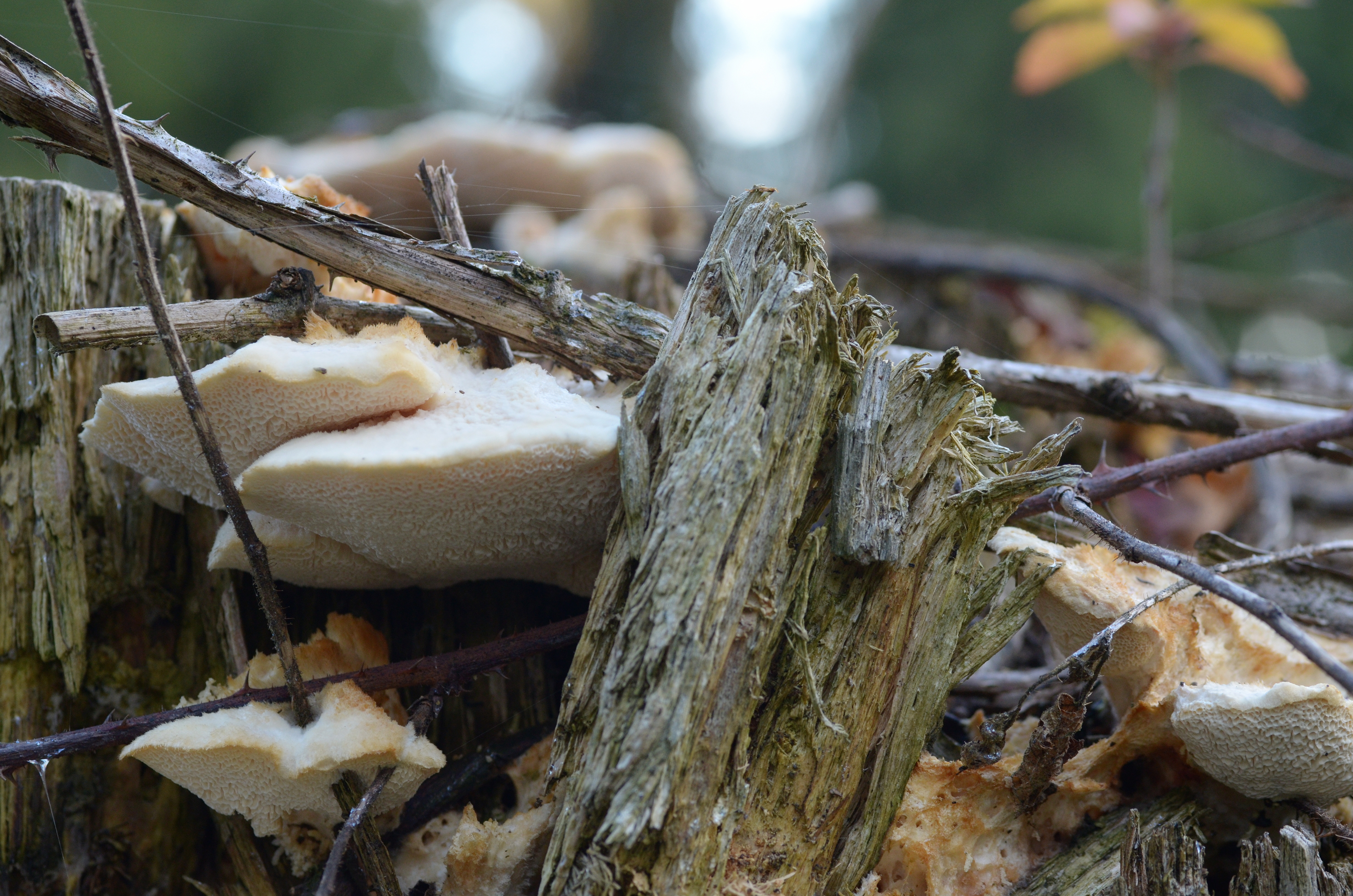 A Climacocystis borealis on a decaying tree trunk. Parts of the mushroom has already been eaten by animals; it usually only lives for a few weeks. On the left one of the mushrooms grows around an obstacle (the blackberry); This is typical for Polyporus.